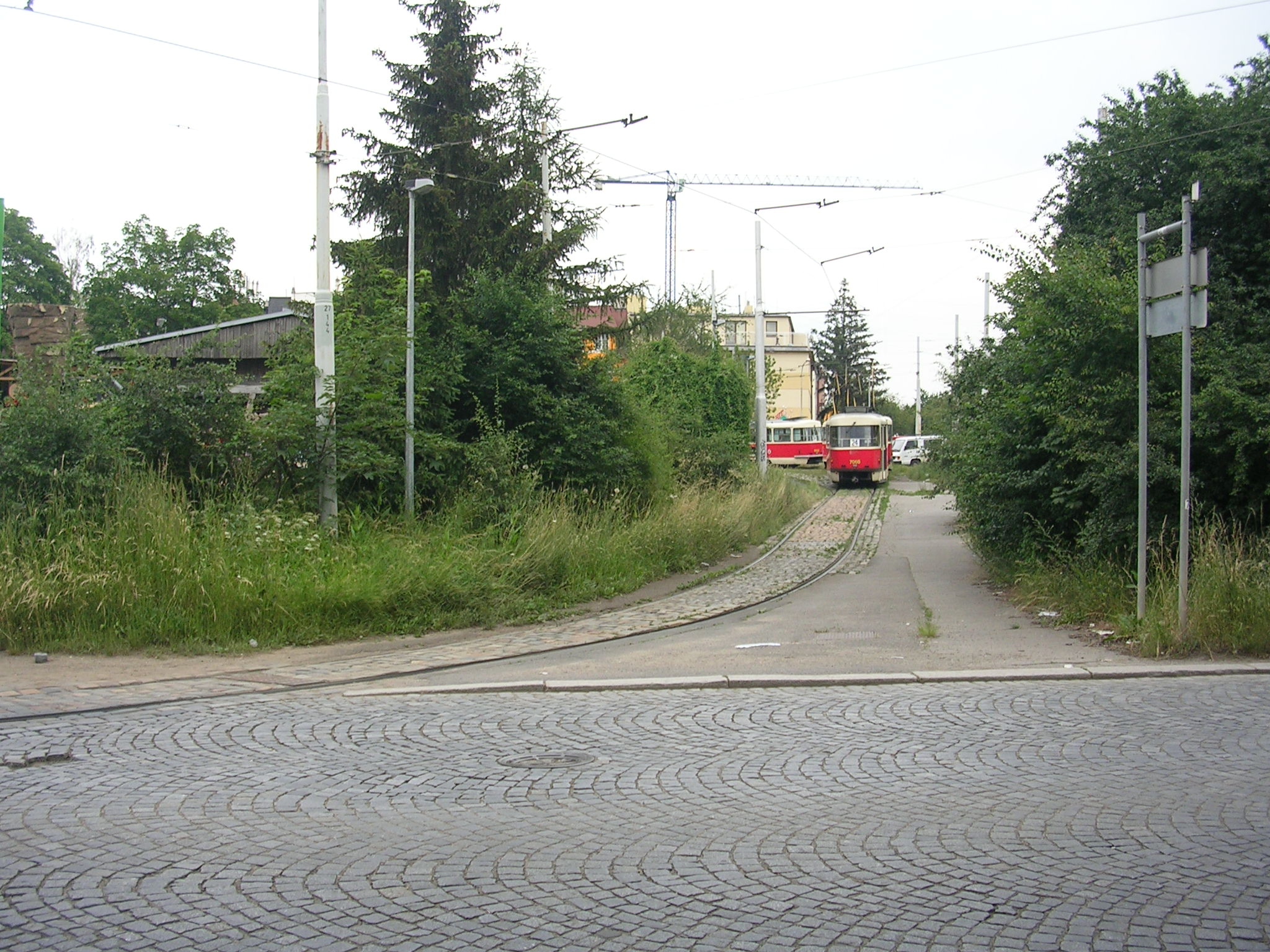 Strašnice, Prague, the Czech Republic.